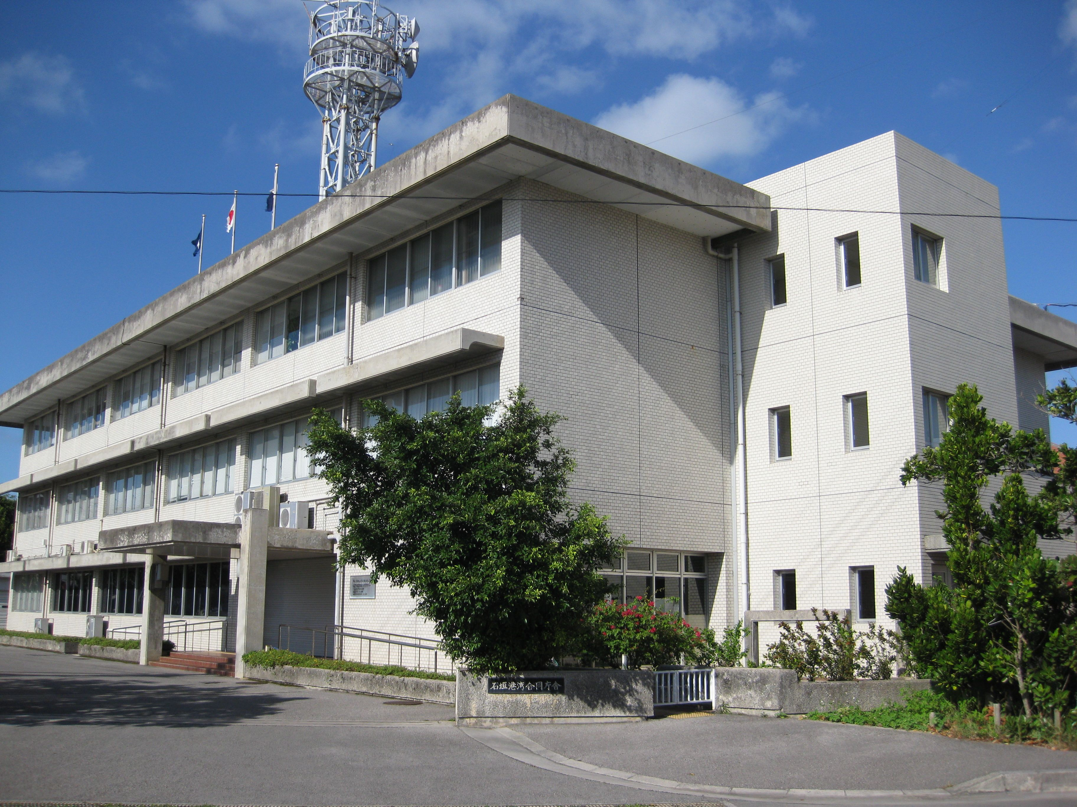 Ishigaki Port Joint Government Building in Okinawa, Japan